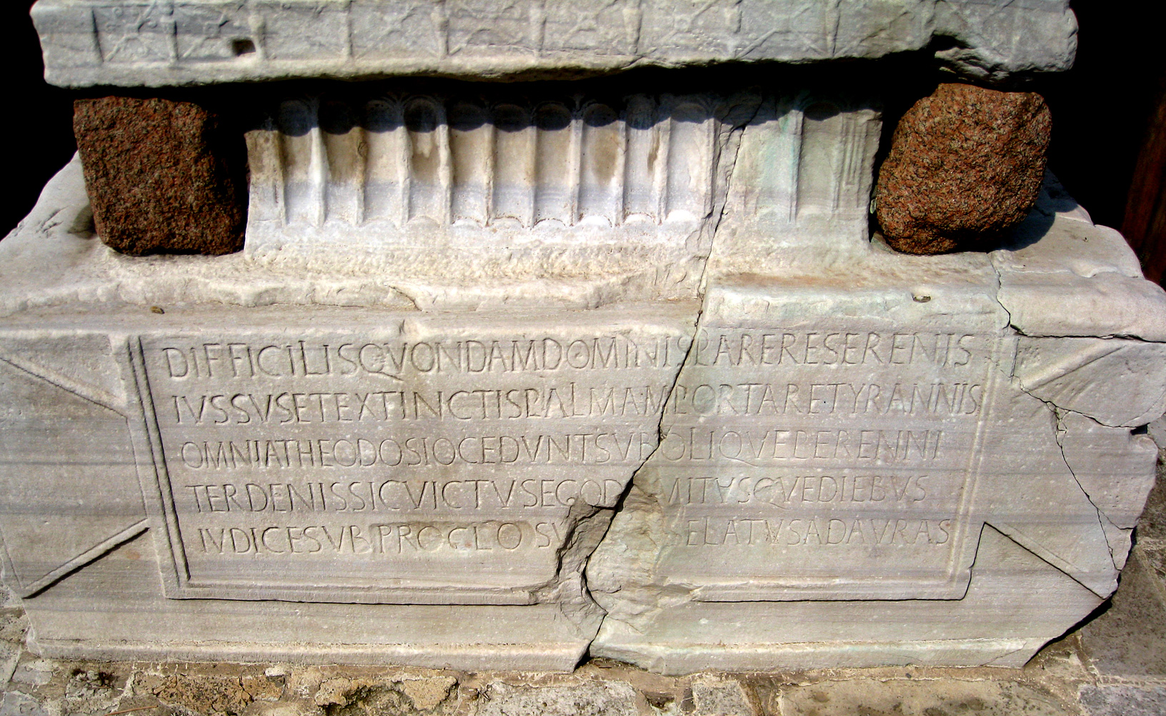 Latin inscription on the Obelisk of Theodosius, Istanbul